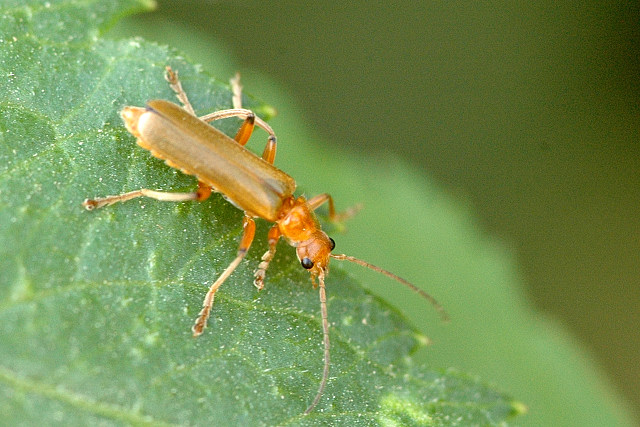 Picture taken in Commanster, Belgian High Ardennes . Species: Cantharis pallida